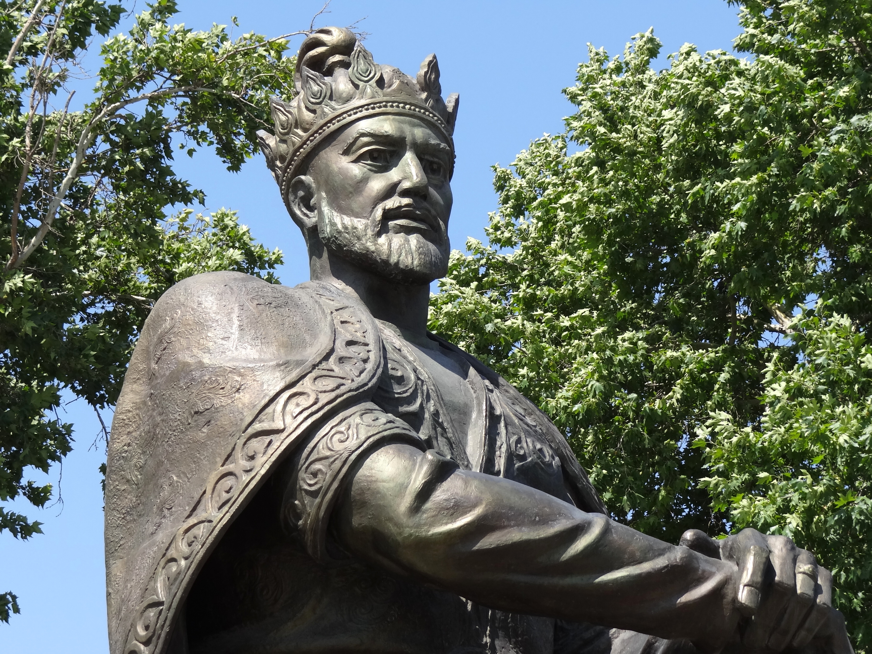 Statue of Amir Tamur (Tamerlane) - Downtown Samarkand - Uzbekistan